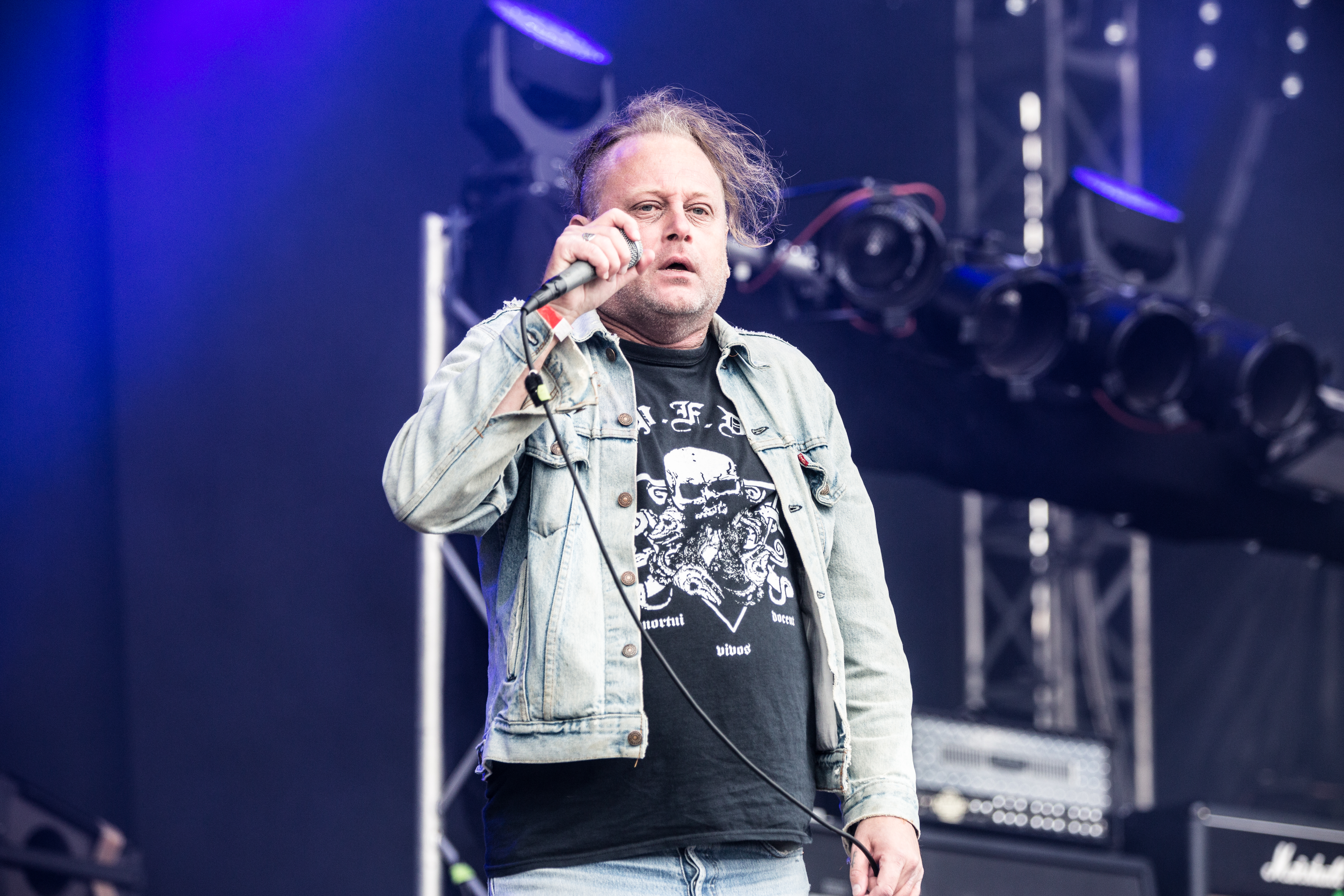 The Swedish death/thrash metal band Merciless at the Party.San Metal Open Air 2017 in Obermehler-Schlotheim/Germany.